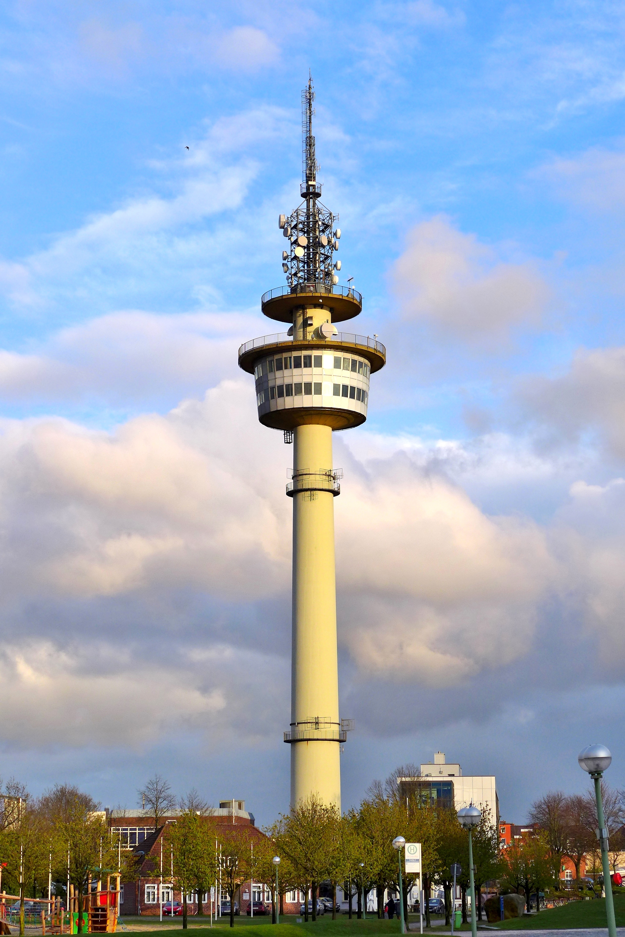 View of the Bremerhaven Radar Tower (Richtfunkturm Bremerhaven)